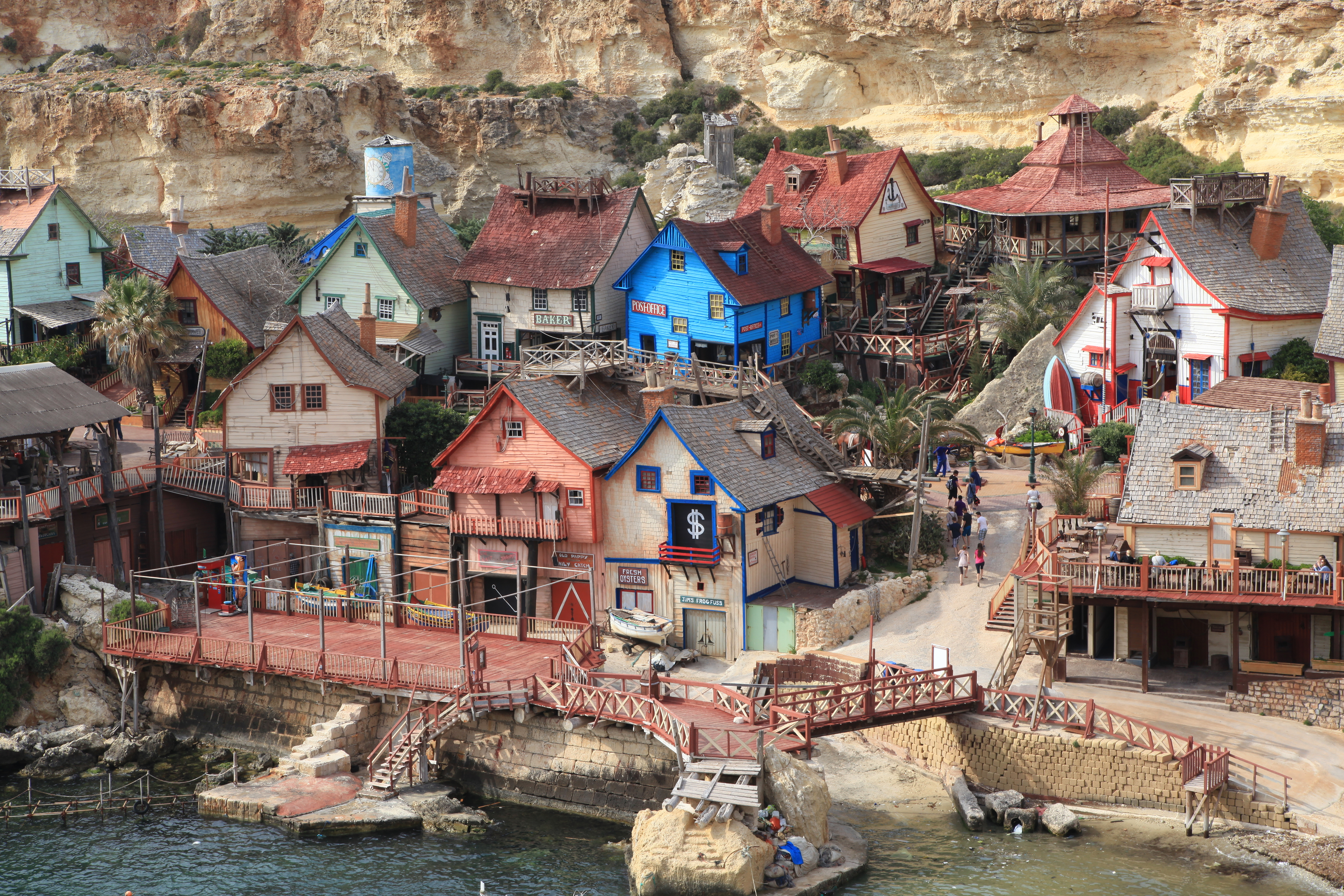 Popeye Village at Triq tal-Prajjet in Mellieħa, Malta